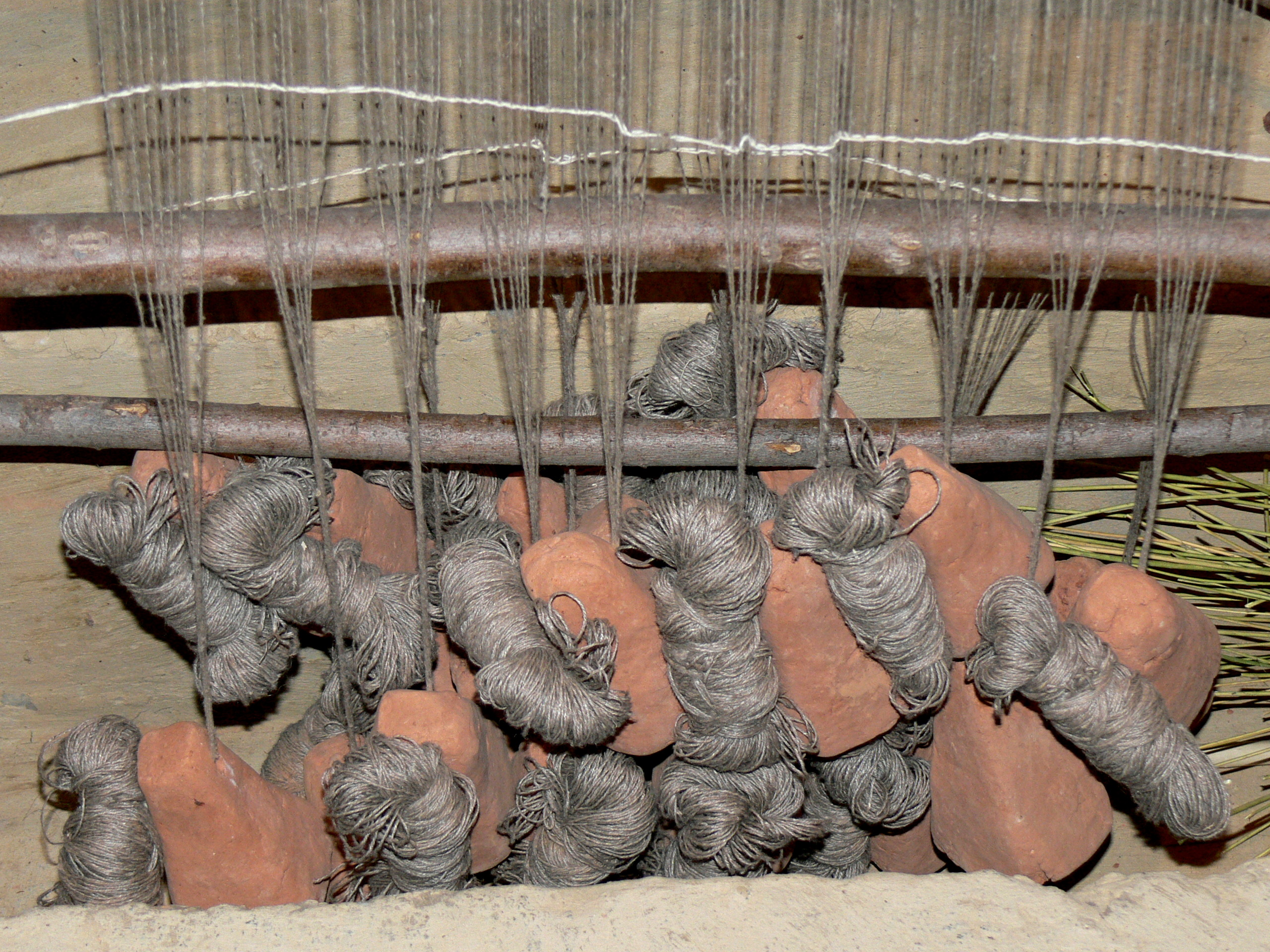 Museum Quintana. Urnfield culture ( 1100-800 BC ): Reconstruction of a loom - weights( detail )